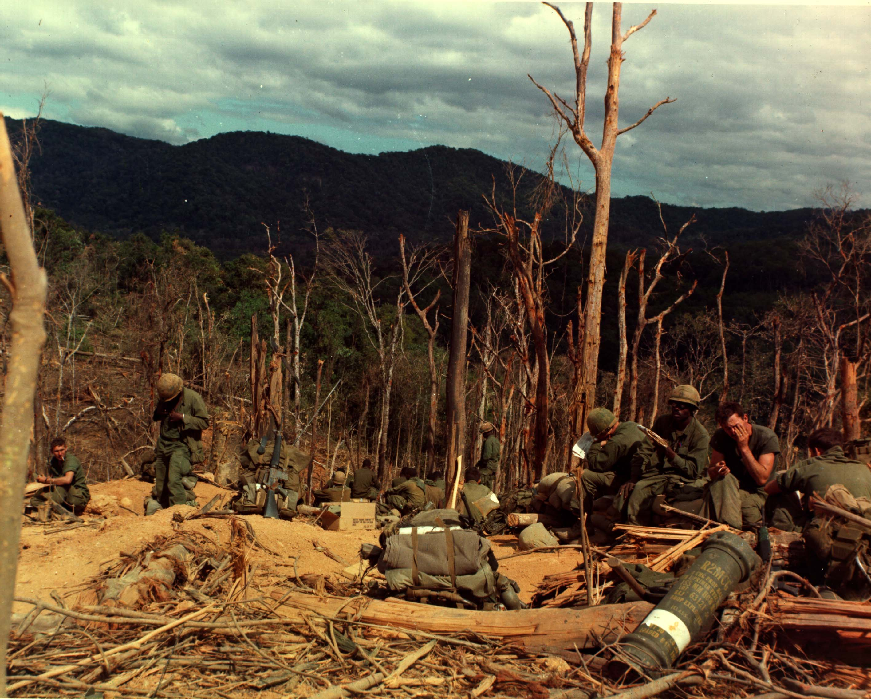 Members of the 3rd Battalion, 12th Infantry, 4th Infantry Division, "take five" during bunker construction on Hill 530, Vietnam War.